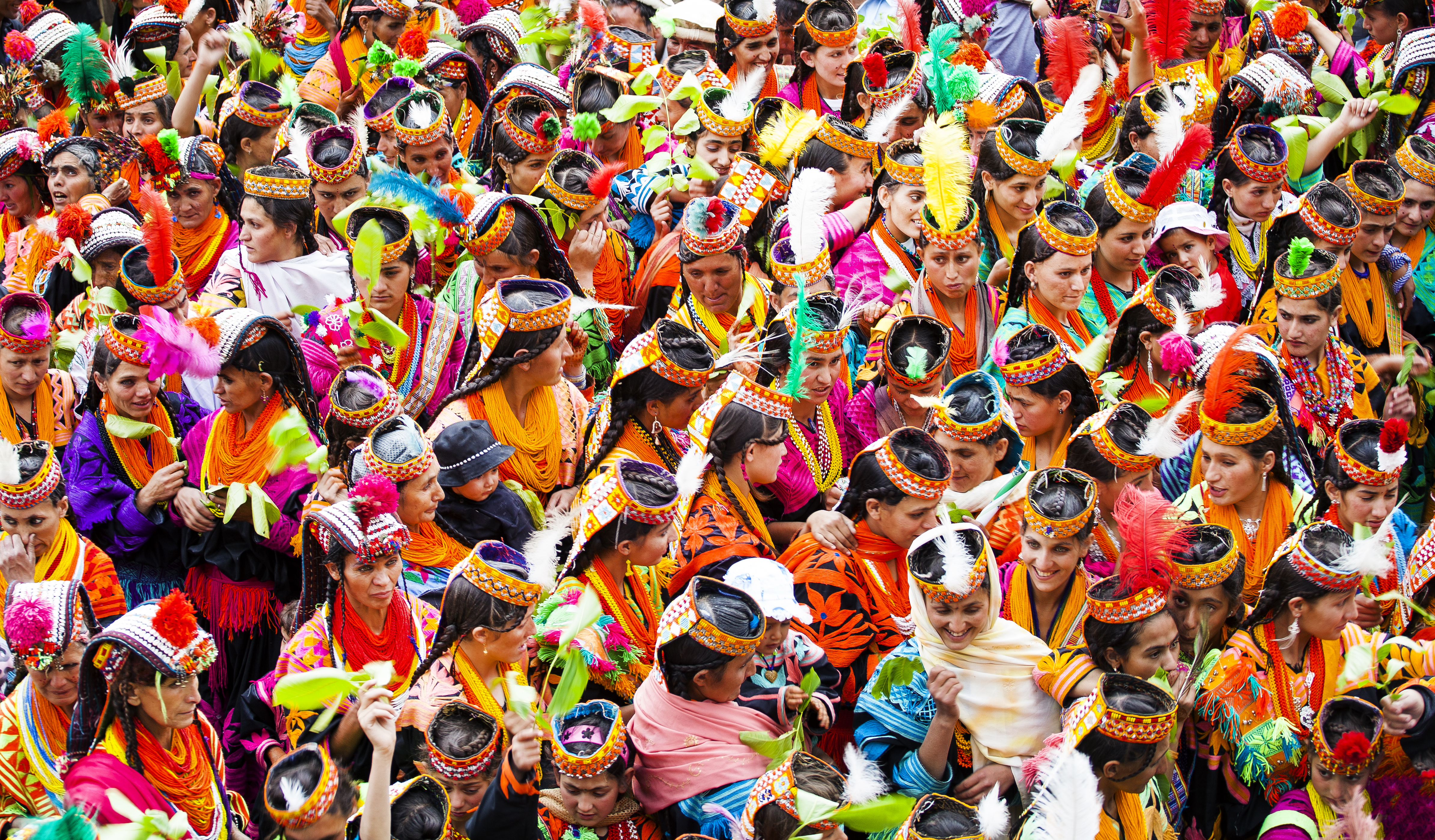 Women are participating with colorful traditionaldresses in festival (chilam josh) in bamburait , chitral Pakistan